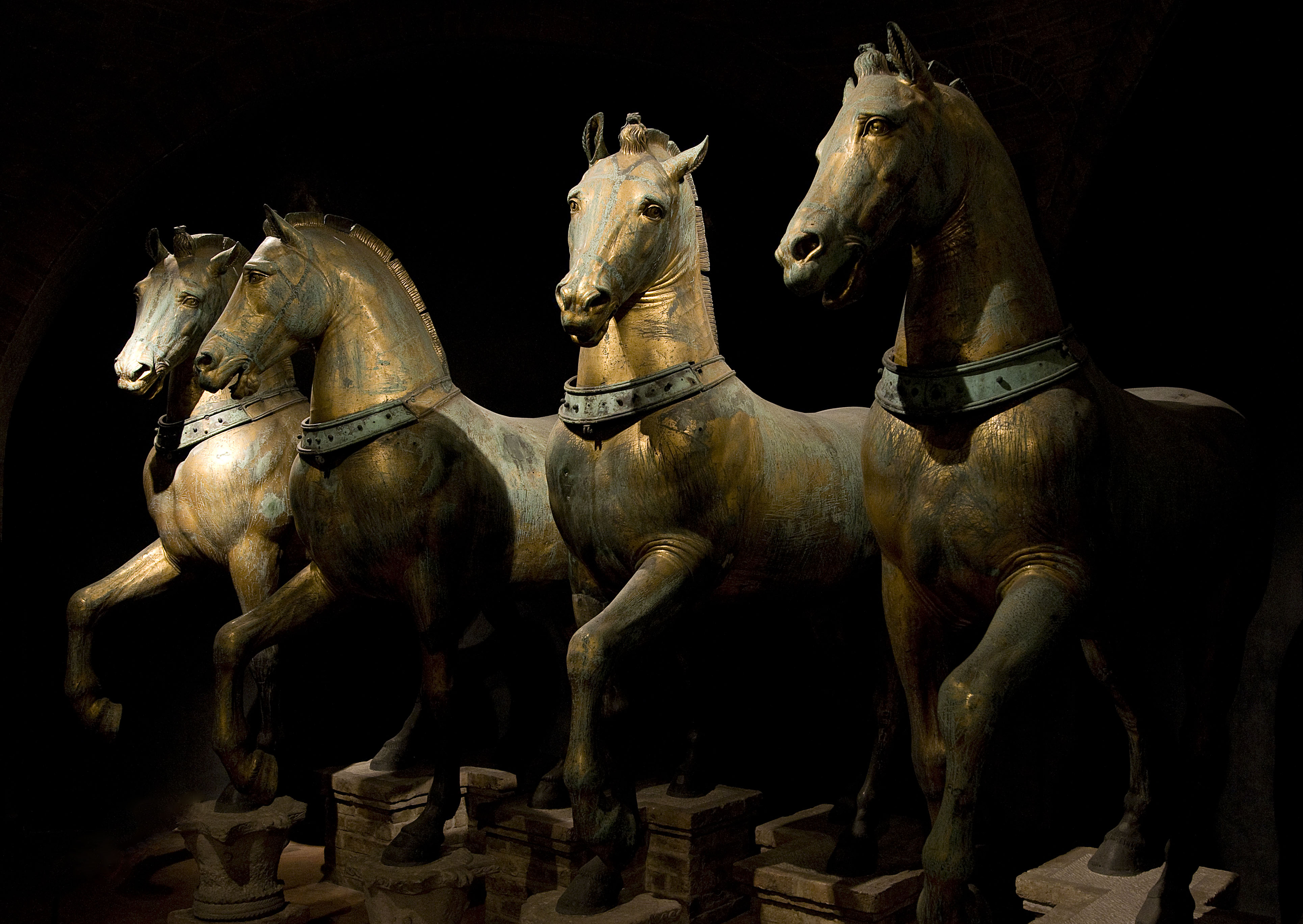 Original Horses Inside Basilica San Marco